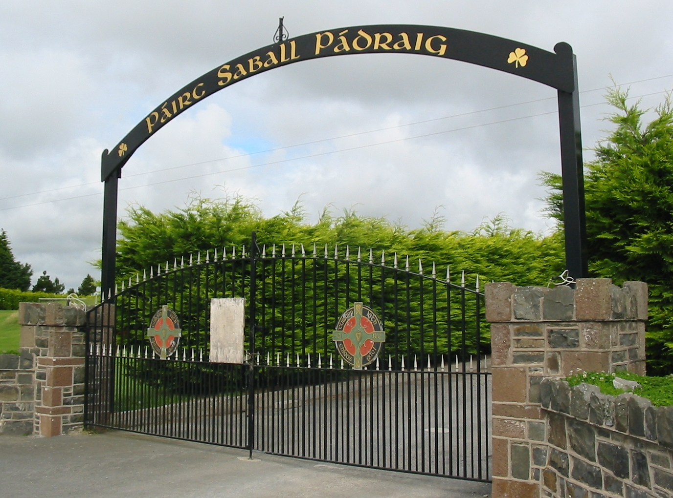 Gaelic sports ground gates in Saul, County Down